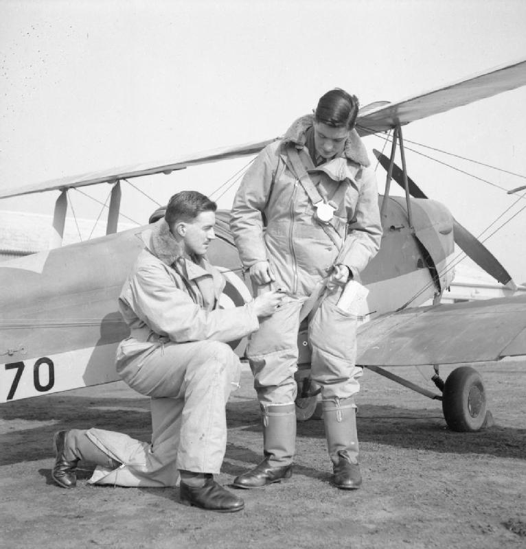 Royal Air Force Flying Training Command, 1940-1945. An instructor shows a pupil pilot how to fasten his parachute safety harness, in front of a De Havilland Tiger Moth at No. 7 Elementary Flying Training School, Desford, Leicestershire. Both wear 1930 Pattern flying suits.